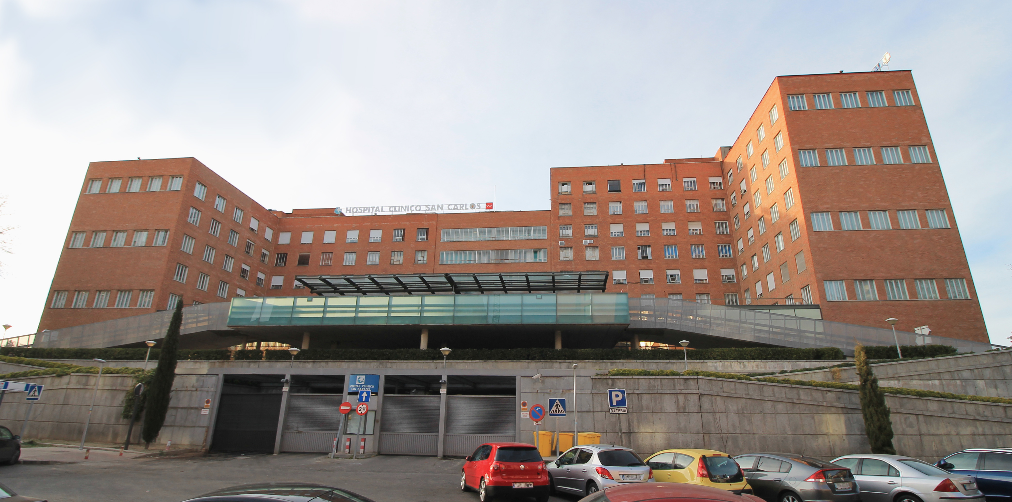 Façade of Hospital Clínico San Carlos in Madrid (Spain).